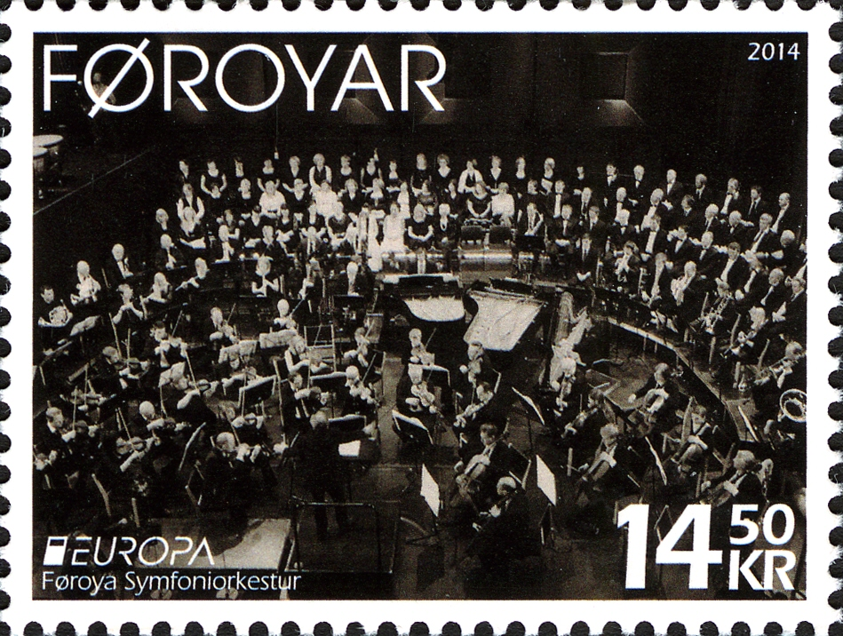 Stamps of the Faroe Islands-2014